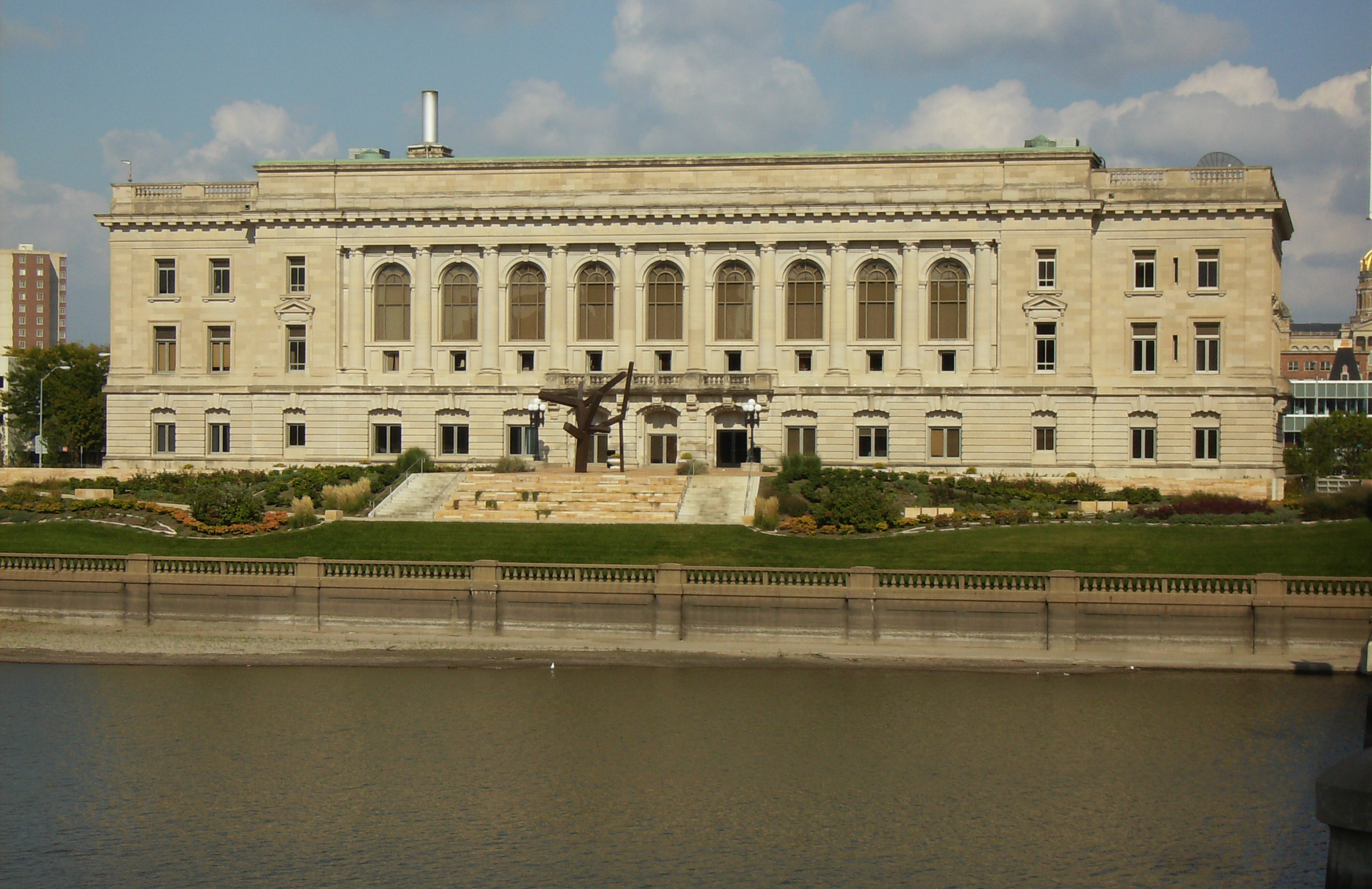 Front of City Hall in Des Moines, Iowa, United States. Built in 1909 at the intersection of Locust and E. First Streets, it is listed on the National Register of Historic Places.